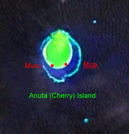 NASA World Wind sat image (Geocover 2000) of Anuta Island, the second westernmost island of the Solomon Islands.